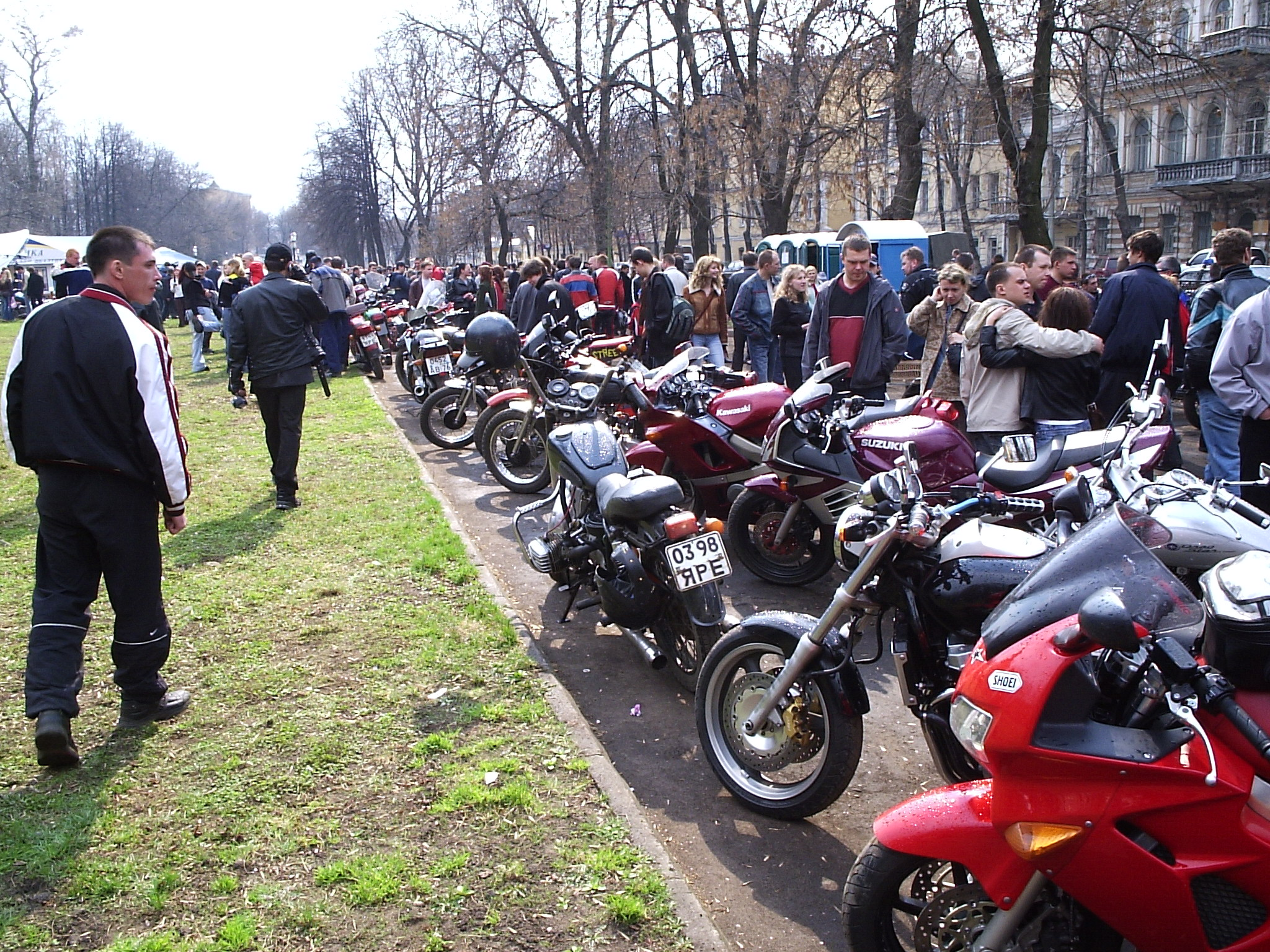 Bikers in Yaroslavl, Russia.